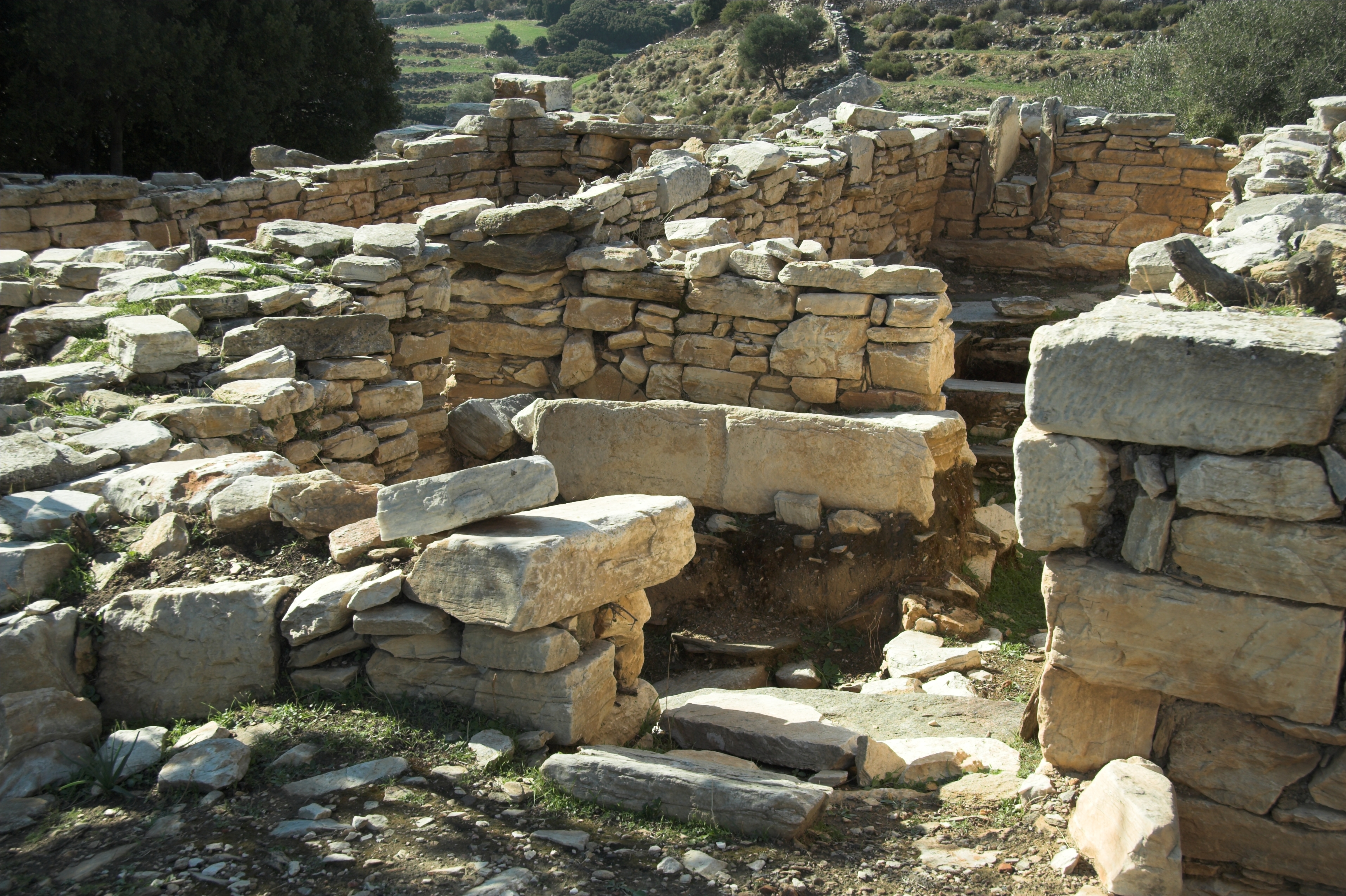 Hellenistic settlement at Pyrgos Cheimarrou (Chimarru) on Naxos.